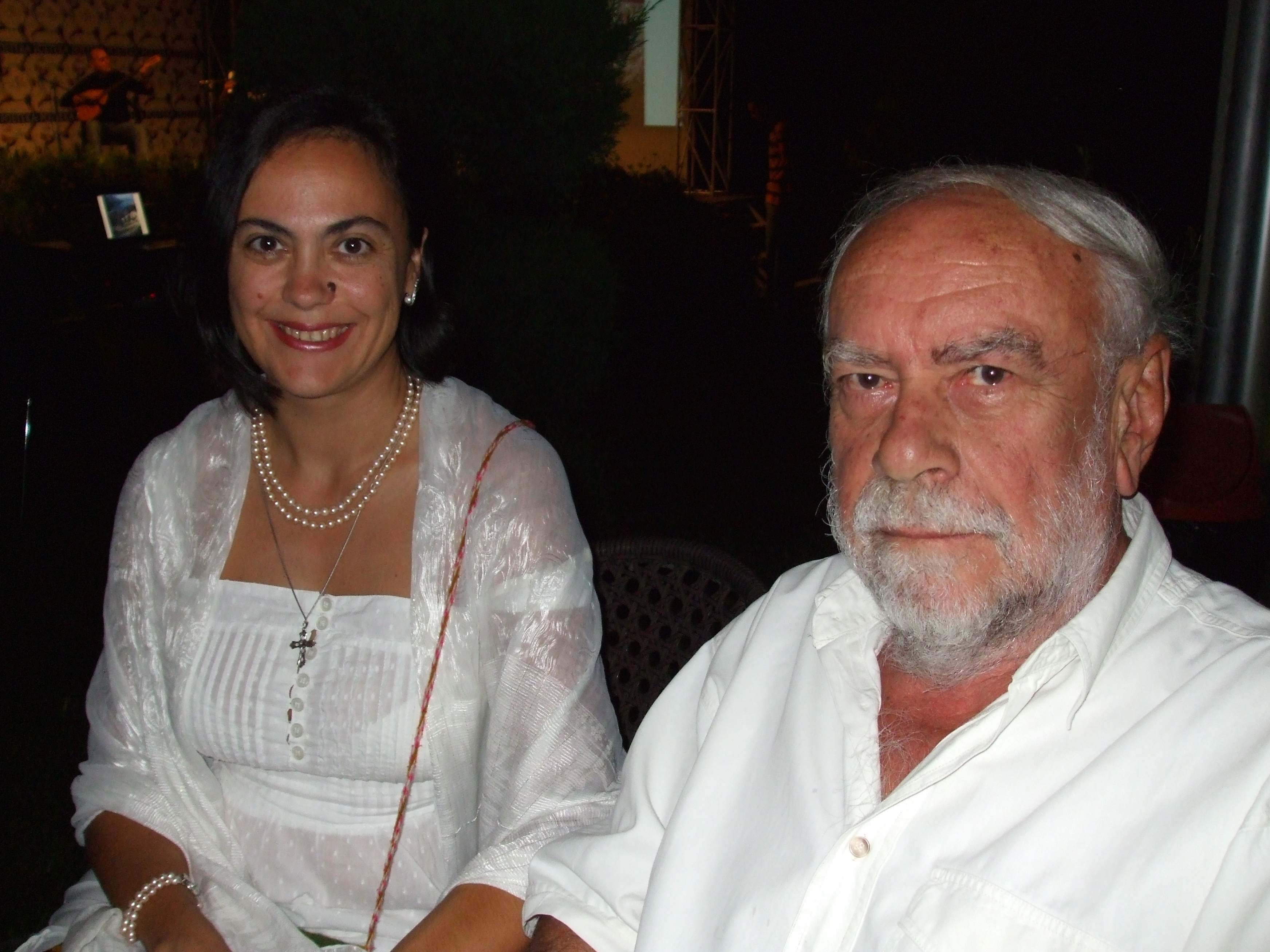 Tsvetanka Elenkova and Bogomil Gjuzel, Albania, 2009